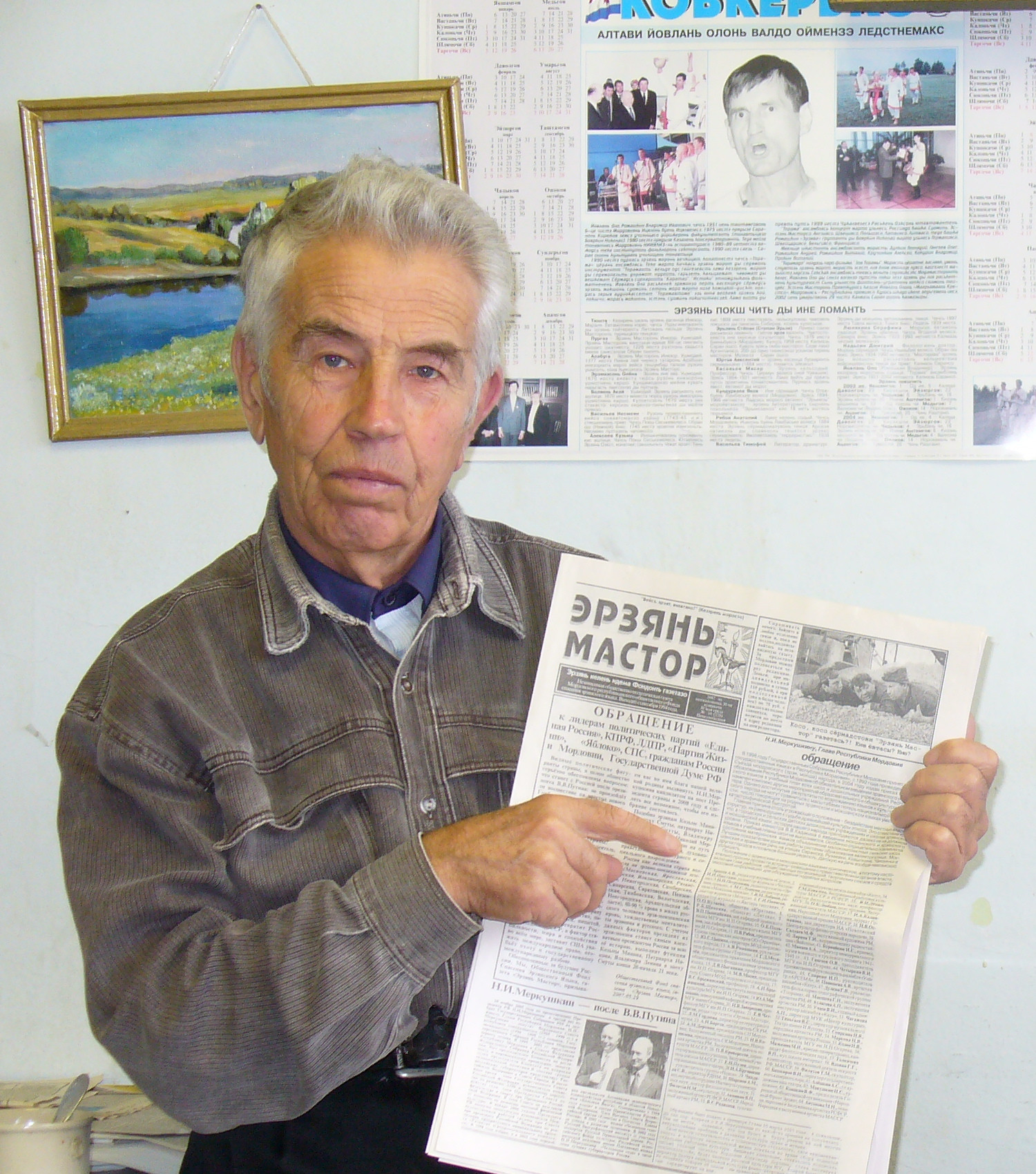 Nuyan' Vidyaz (Chetvergov, Evgeny Vladimirovich), one of the chief editors of the Erzyan Mastor newspaper.